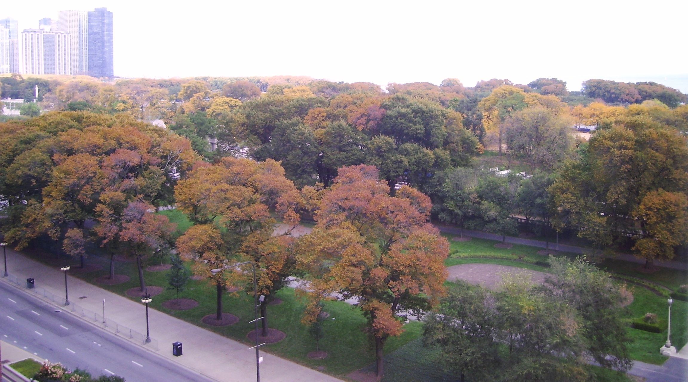 Grant Park in Chicago, Illinois as seen from the 10th floor of the Essex Inn at 800 South Michigan Avenue.